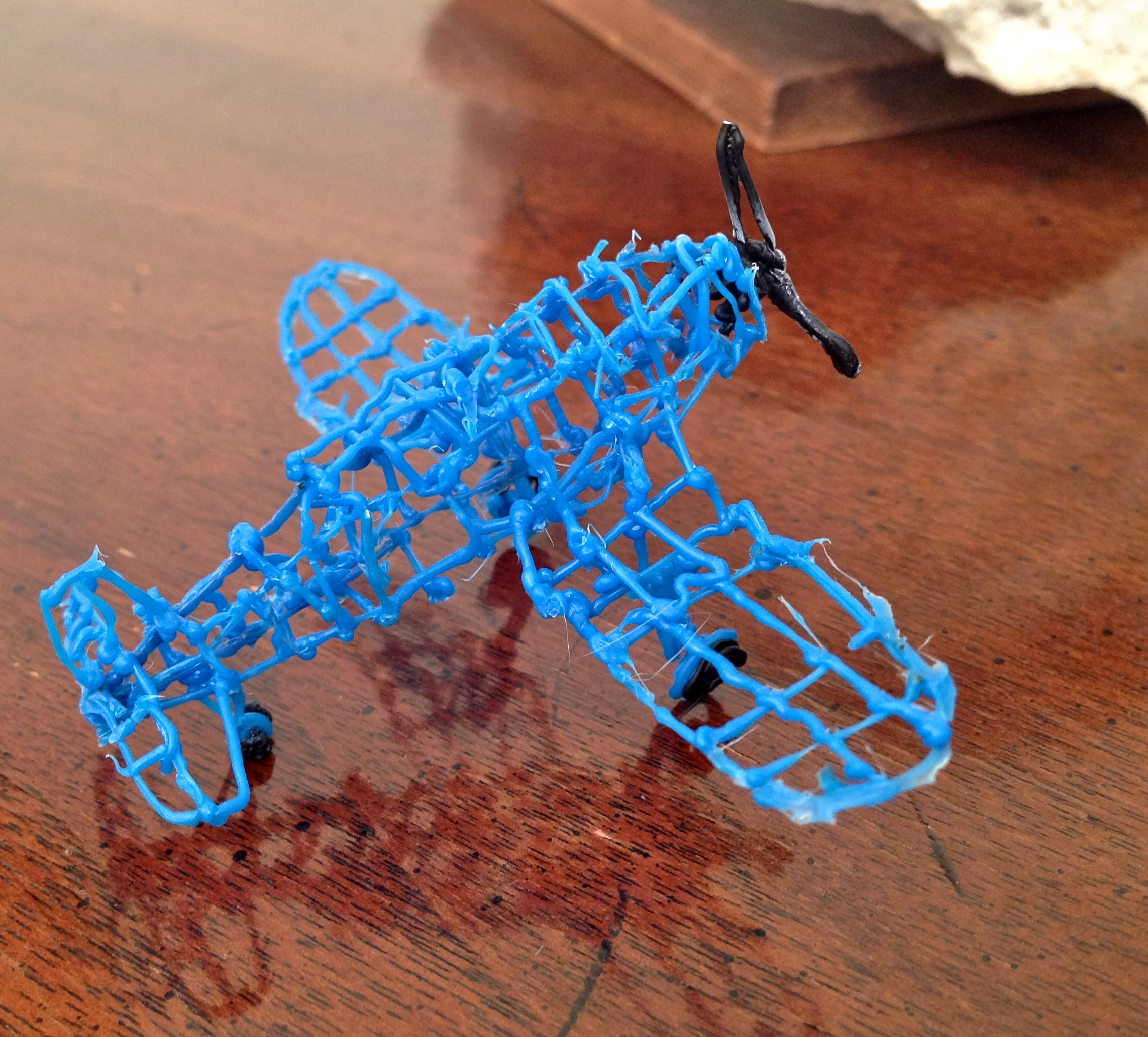 A Corsair model airplane drawn using the 3Doodler pen on a coffee table.